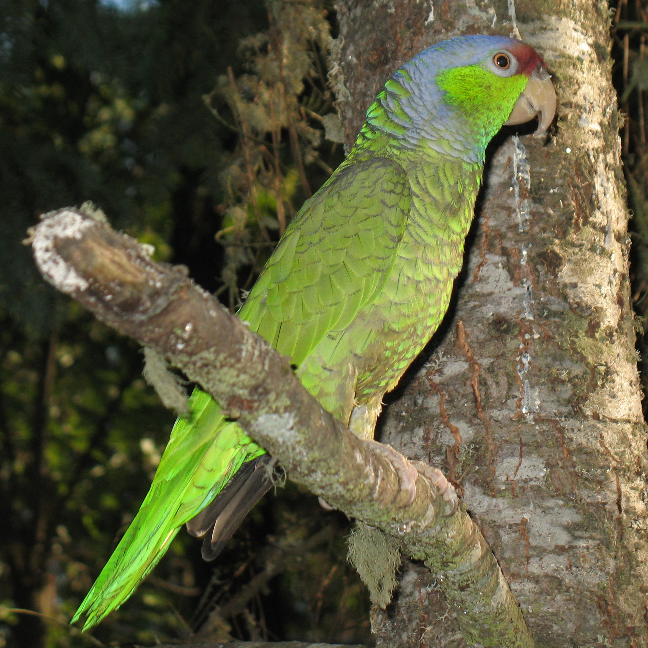 Lilac-crowned Amazon (Amazona finschi)